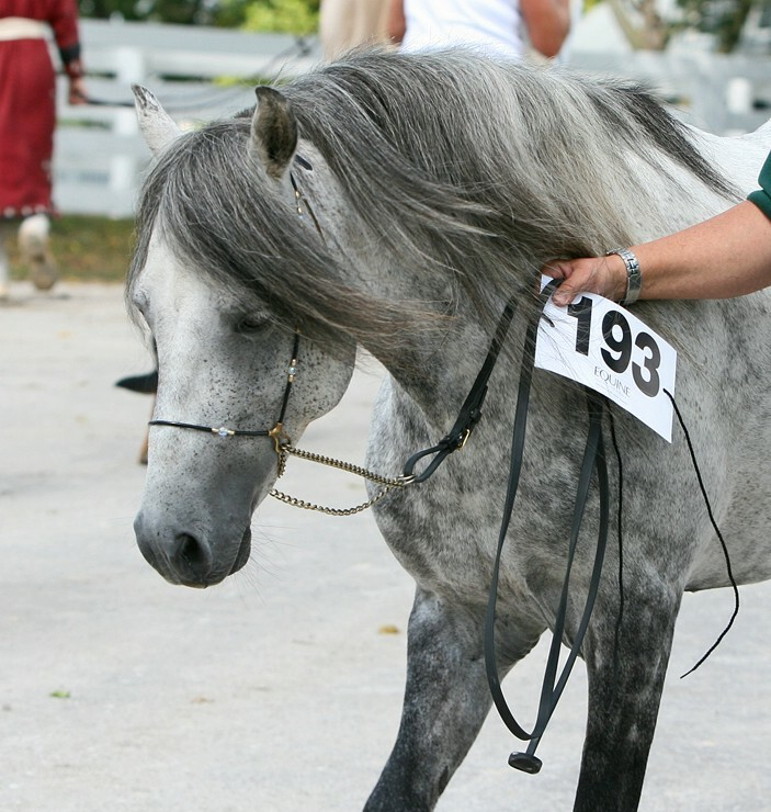 Caspian stallion, photo by Heather Abounader